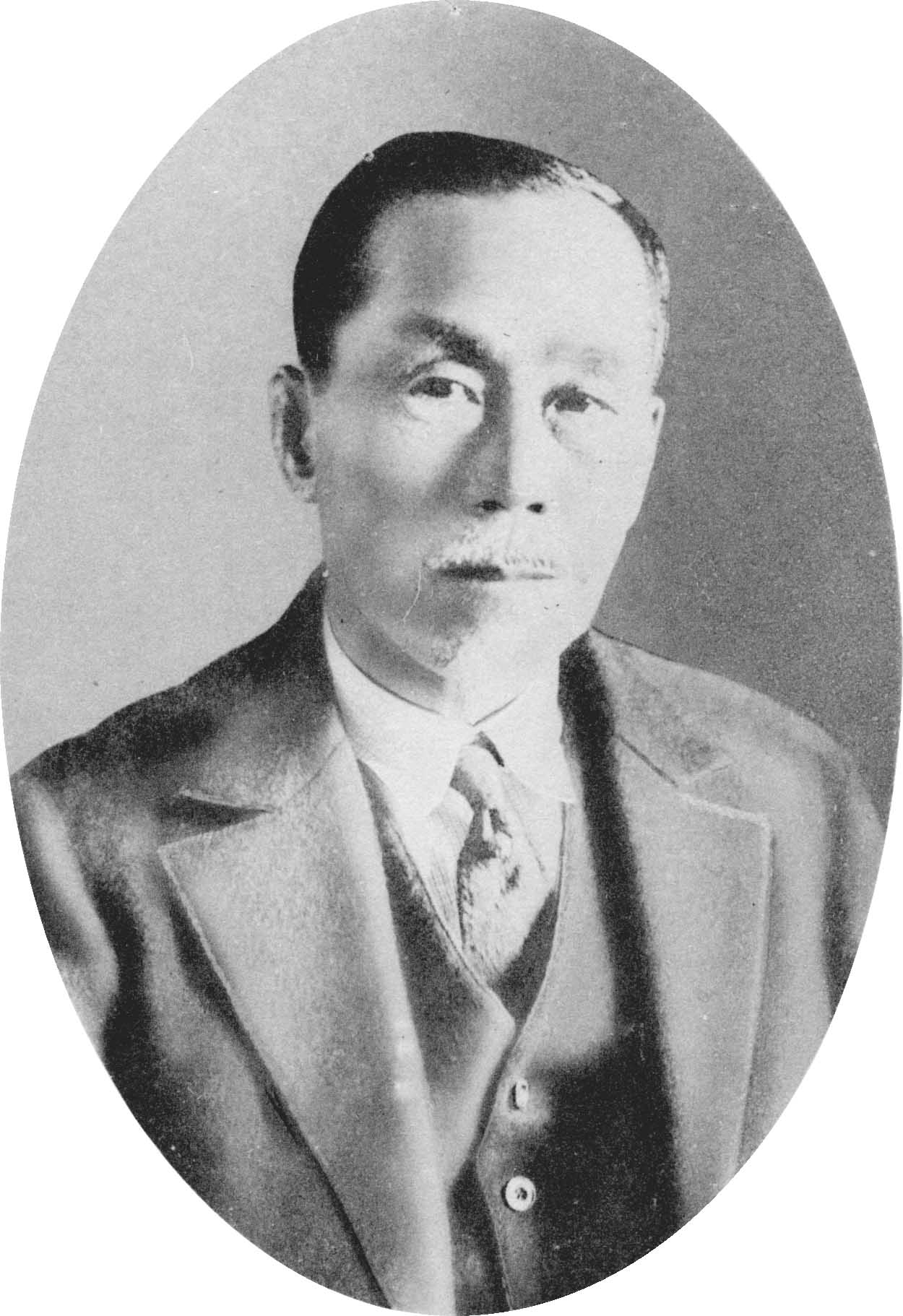 Gotō Seitarō, Dean of the Faculty of Science at Tokyo Imperial University.